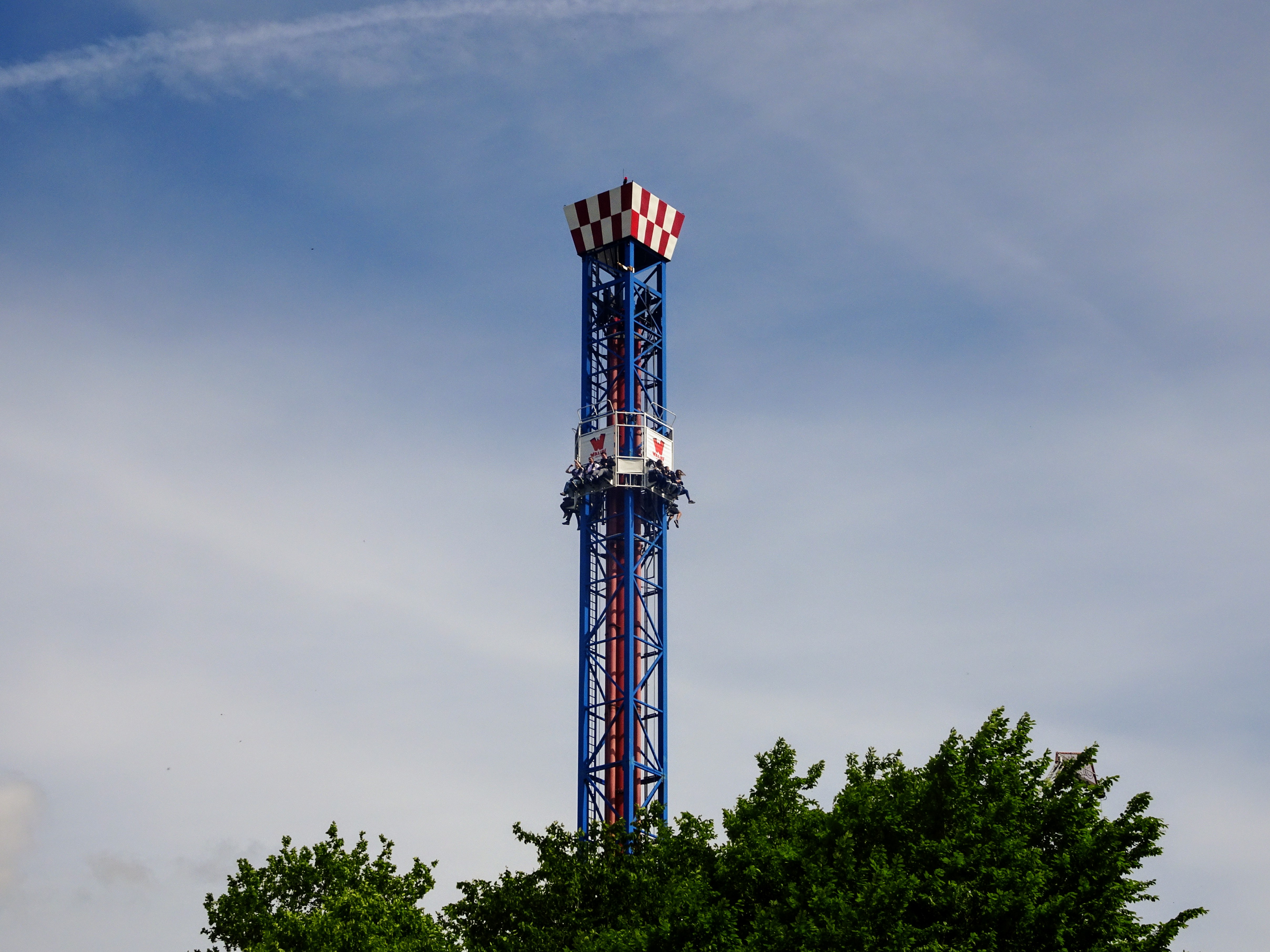 Space Shot (Walibi Holland) - 2017